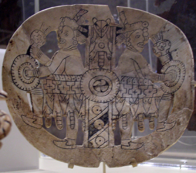 Photo of an engraved shell gorget with S.E.C.C. imagery from Spiro Mounds Oklahoma.